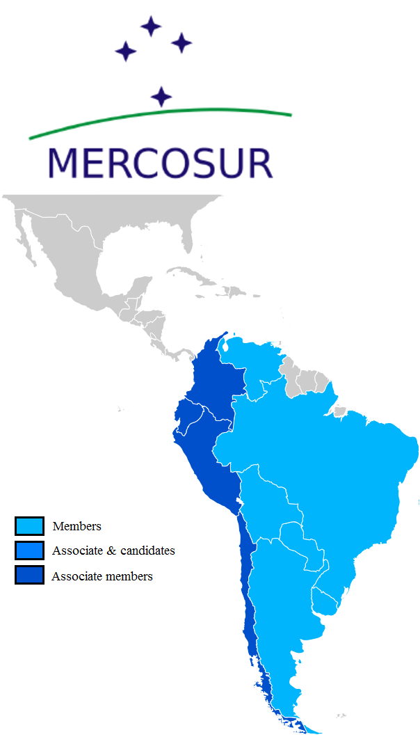 Member states, Associate members and Observers of MERCOSUR